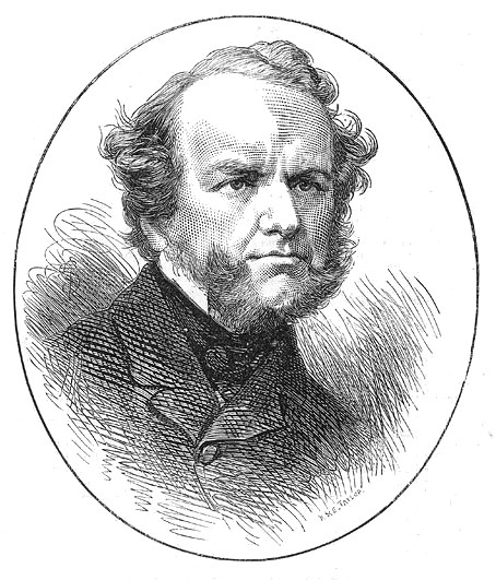 The late Mr. Howard Staunton. Engraving published in Staunton's obituary in 1874; he had been the newspaper's chess correspondent since 1845.